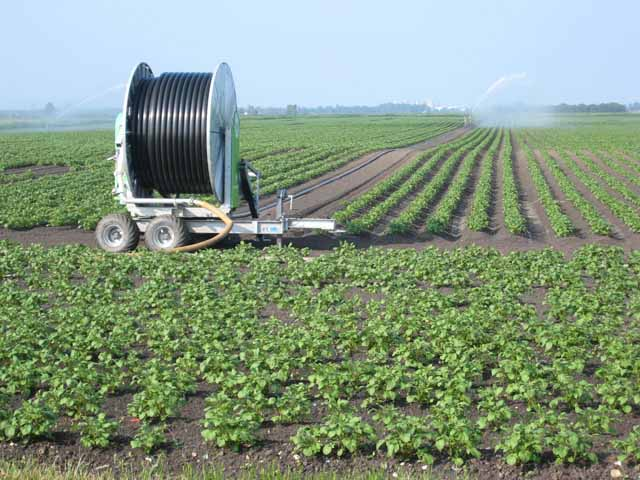 Rainmaker Irrigating the potato crop, Sedge Fen.